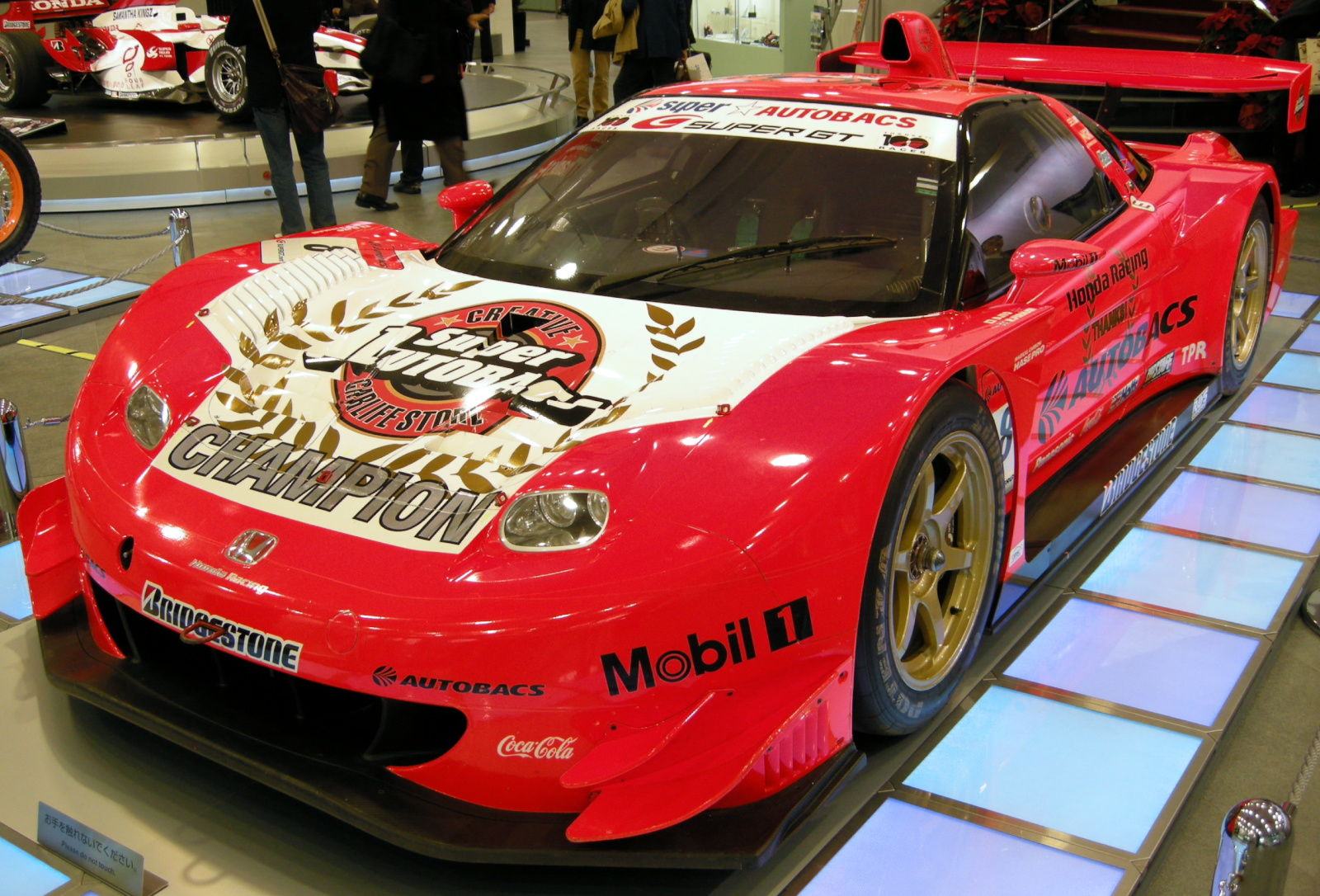 2007 Super GT ARTA NSX Champion Color version